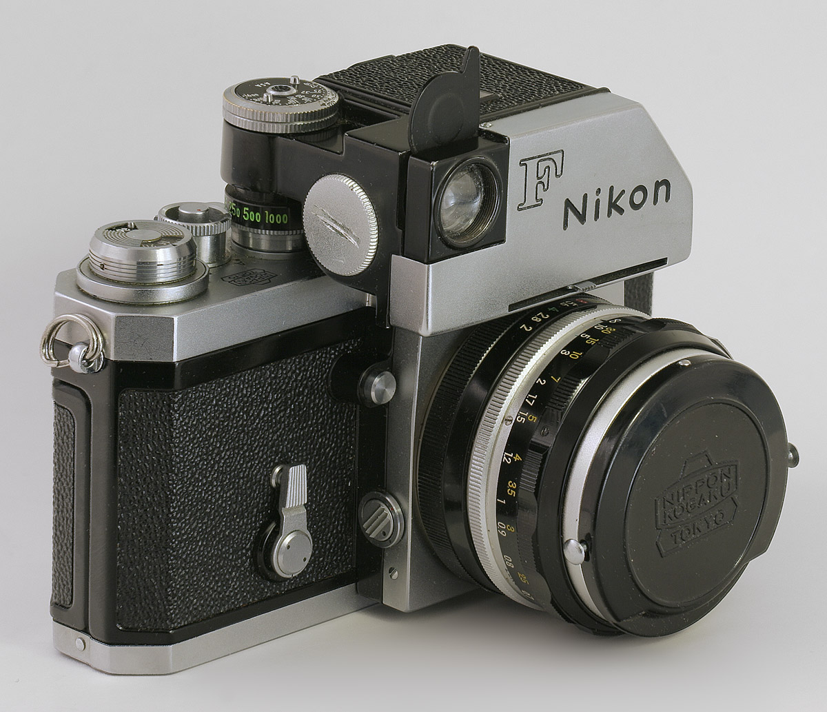 Nikon F film camera -- Photomic finder -- NIKKOR-S Auto 1:2 f=5cm lens Taken with a Canon 20D and Canon 100mm f/2.8 Macro lens at f/8. 13 1/2-second exposures at ISO200 in a focus stack were combined with Helicon Focus lite 5.0